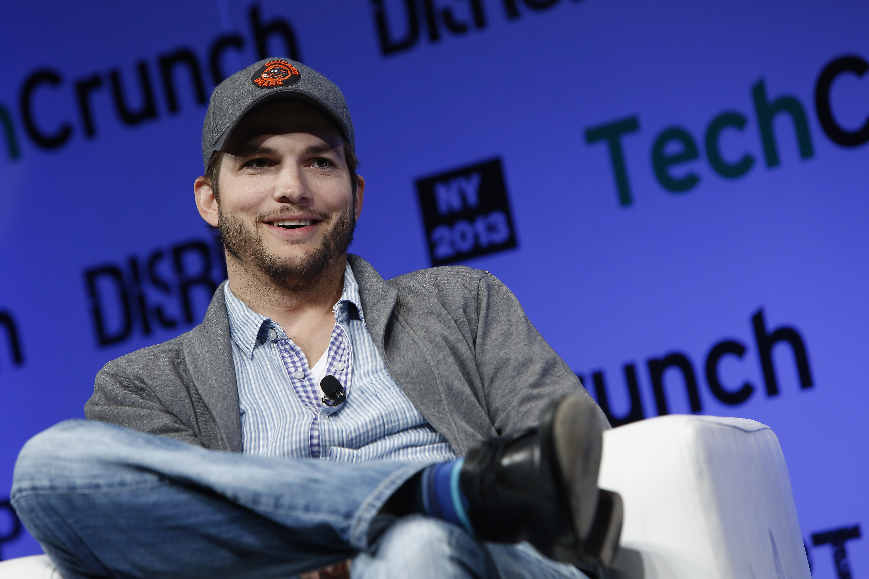 NEW YORK, NY - MAY 01: Ashton Kutcher of A-Grade speaks onstage at TechCrunch Disrupt NY 2013 at The Manhattan Center on May 1, 2013 in New York City. (Photo by Brian Ach/Getty Images for TechCrunch)